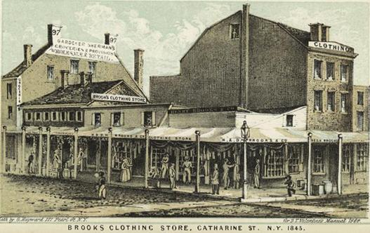 Lithograph of Brooks Clothing Store, Catherine Street, New York City, in 1845